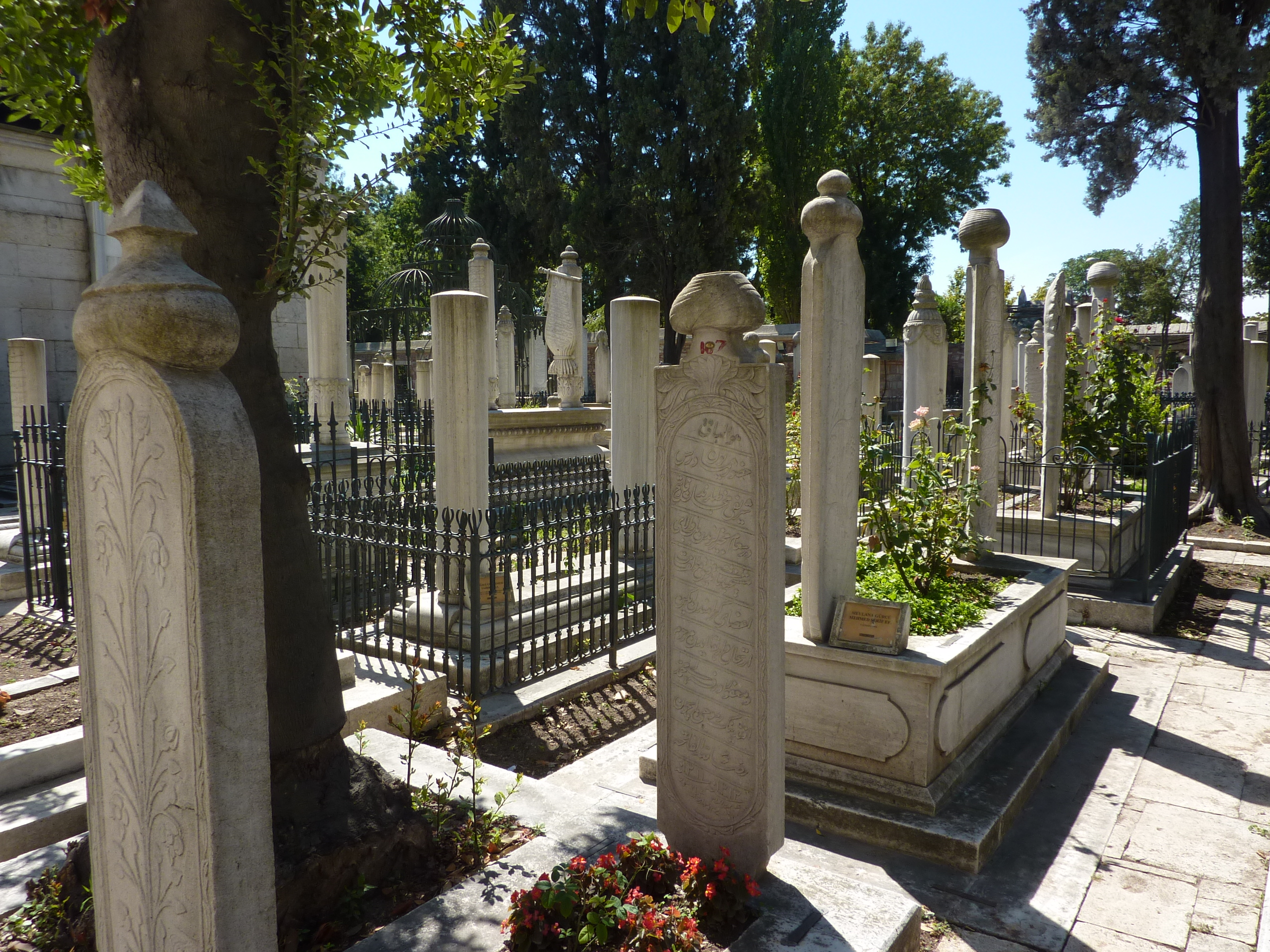 Graves of various dignitaries near the Mausoleum of Sultan Mehmed II (the Conqueror)